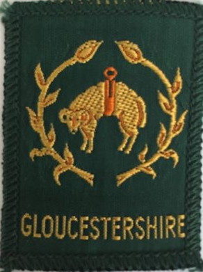 The badge of Gloucester County Scout Council, the Scout Association of the United Kingdom.